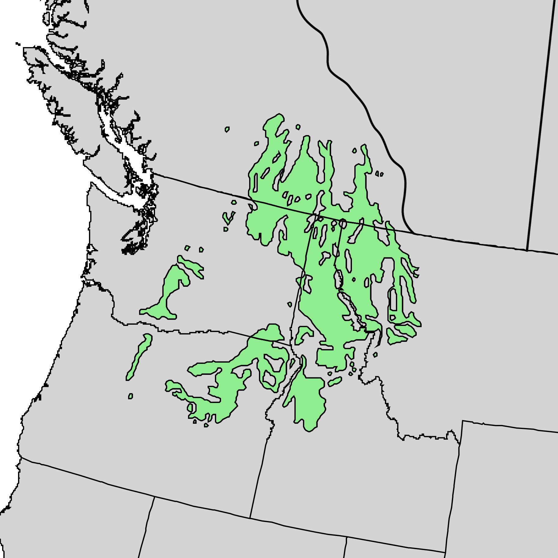 Natural distribution map for Larix occidentalis (western larch)